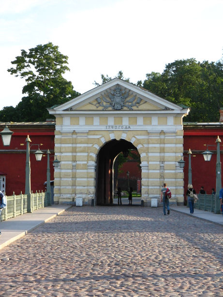 Ioannovsky Bridge over Kronwerk (Peter and Paul Fortress)